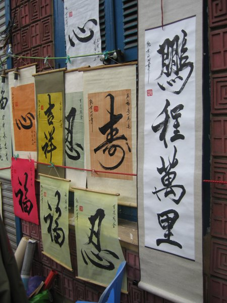 Hán tự - Vietnamese calligraphy paintings.